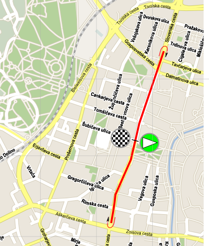 Map of the prologue of Giro Donne 2015. Background from openstreetmap.